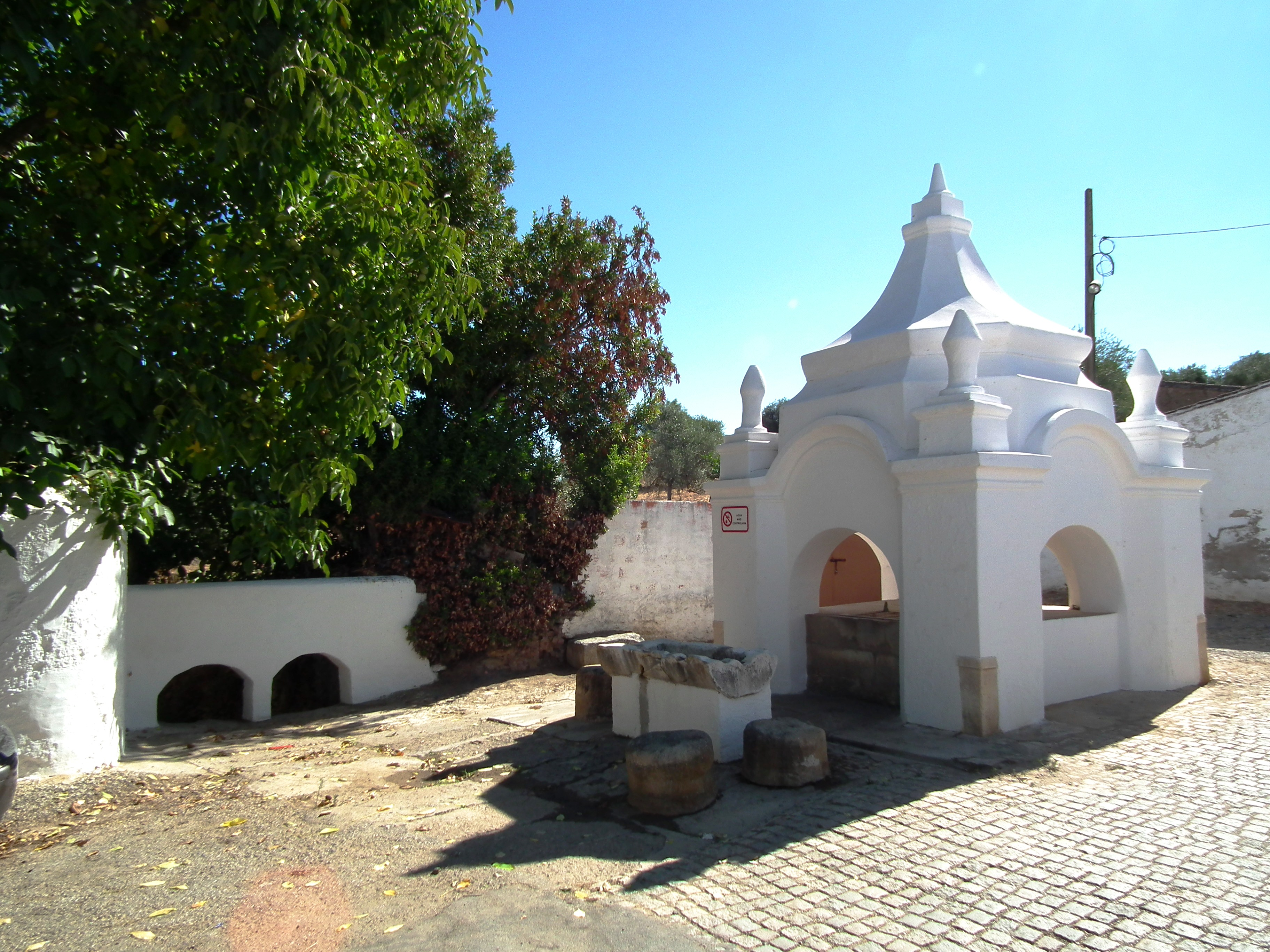 Photo of "Fonte de Aroche" in Santo Aleixo da Restaurção, Portugal, in August